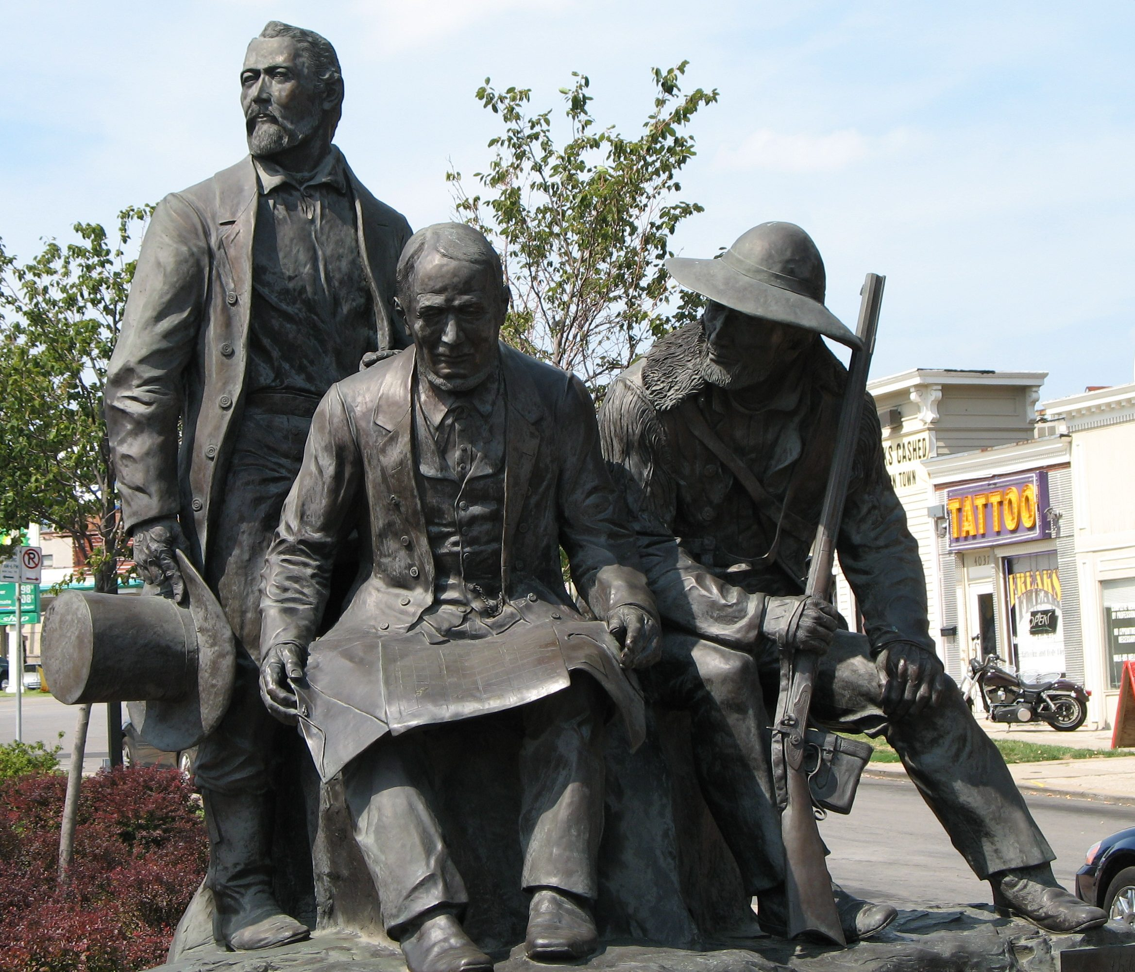 "The Pioneers," a heroic-sized sculpture by Thomas L. Beard. Kansas City memorial in Pioneer Square at Westport Road and Broadway. From left to right: Alexander Majors, John Calvin McCoy, and Jim Bridger.